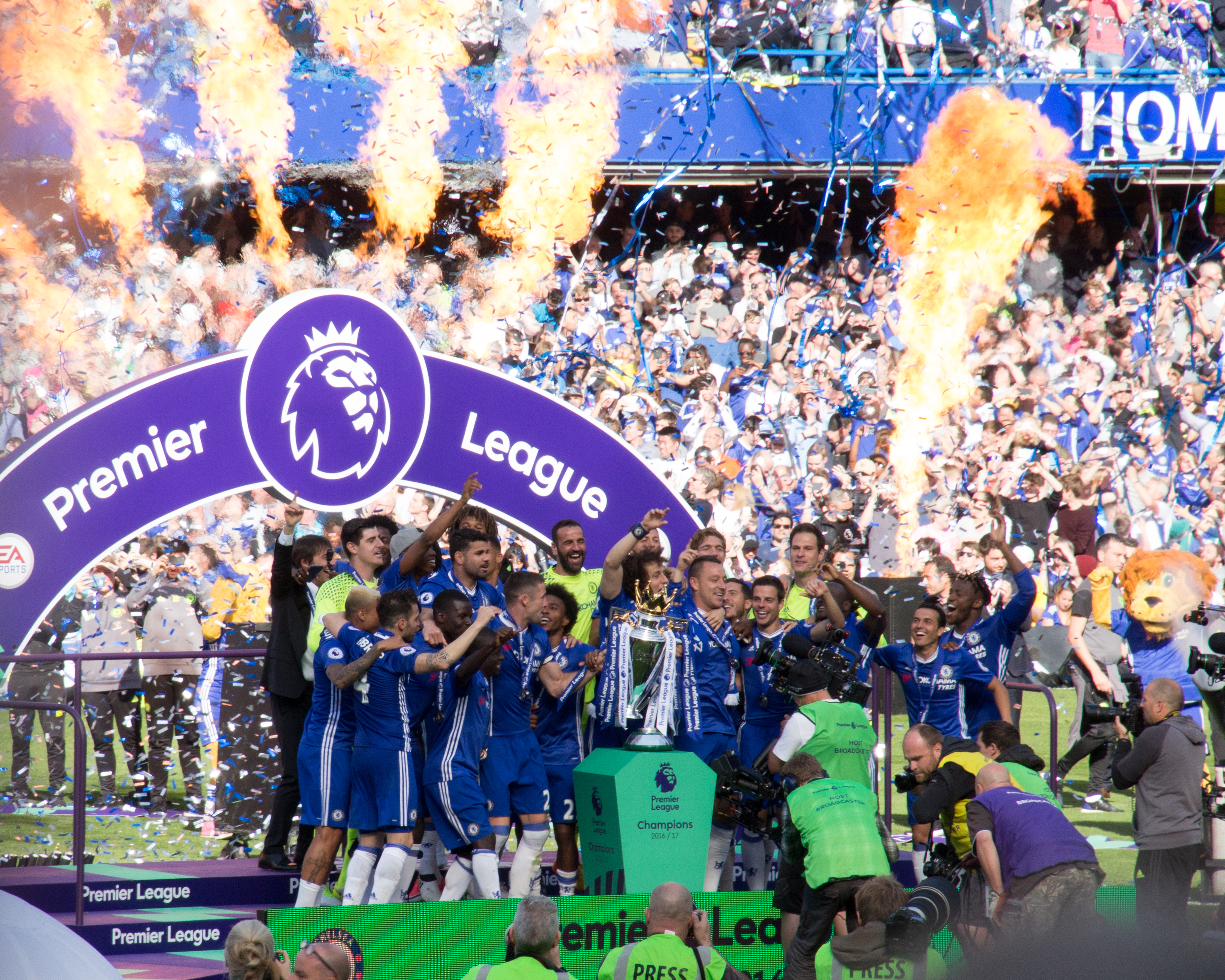 21.5.17 Post Match Celebrations